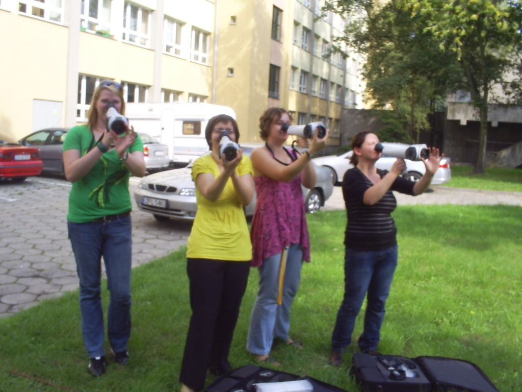 Field olfactometry - practice. Students of West - Pomeranian University with Nasal Ranger